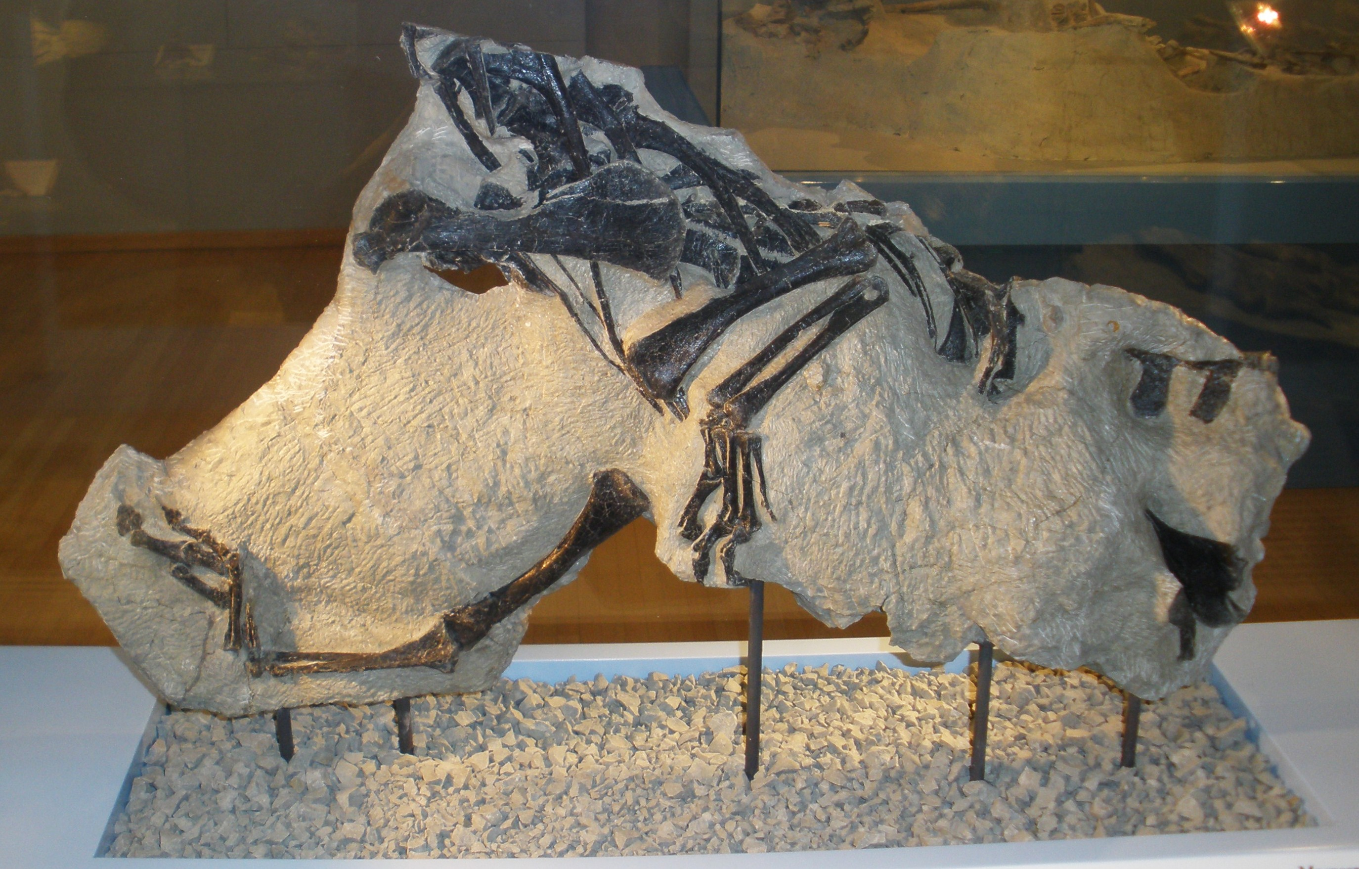 Holotype specimen of Notatesseraeraptor frickensis, a theropod dinosaur, in Sauriermuseum Frick .